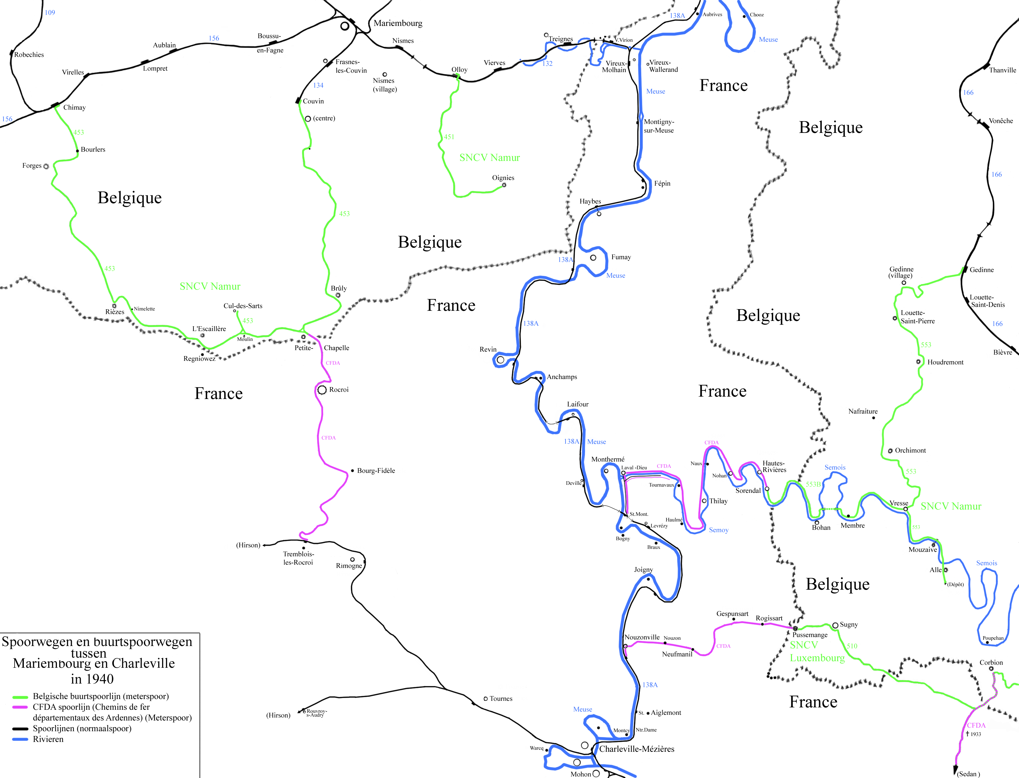 Map of the vicinal railways in the South of the province of Namur.